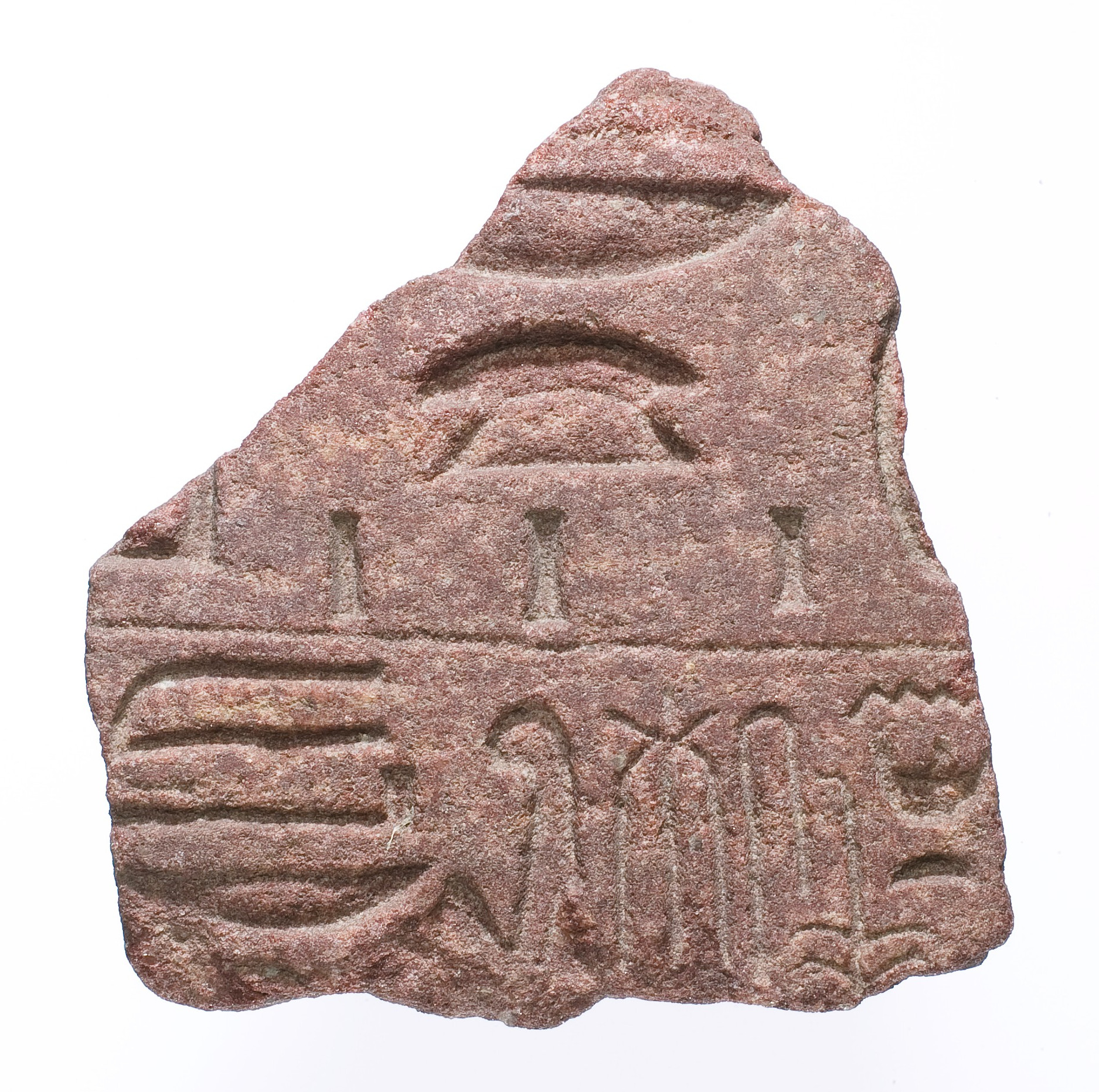 Names of Akhenaten and Meketaten